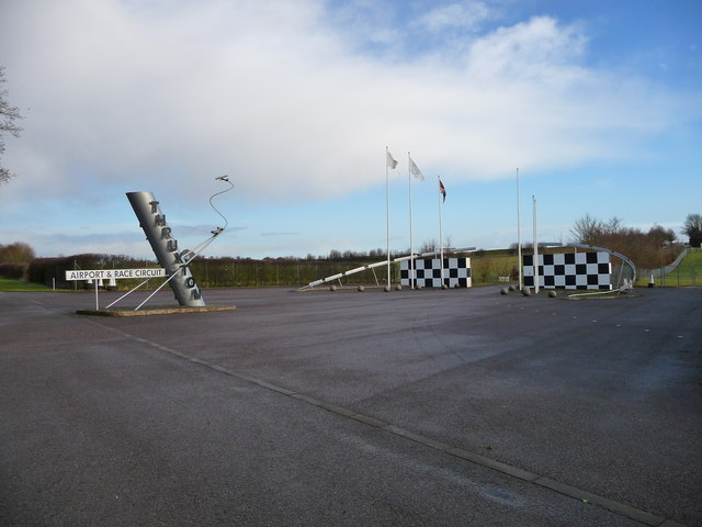 Thruxton - Entrance to Race Circuit and Airport Until 1946 Thruxton was an R.A.F. airfield and in the 1950's became a motorcycle racing circuit.